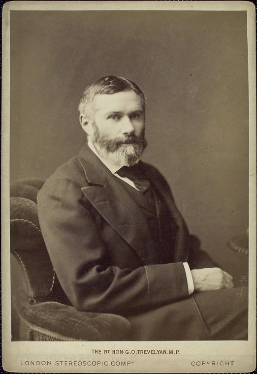 British politician and writer George Otto Trevelyan early in his career